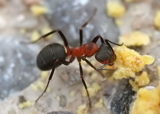 Description: Makroshot of a Formica rufa (Worker) collecting food